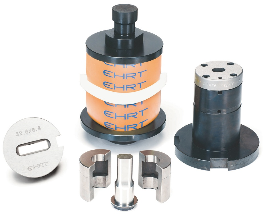 quick change tool system for minimized setup times and high flexibility, plug and punch